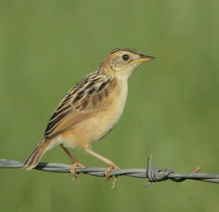 Wing-snapping Cisticola (Cisticola ayresii). A small Cisticola found in sub-Saharan Africa. Location: Cedara Farm, Pietermaritzburg, South Africa. For more information on this species